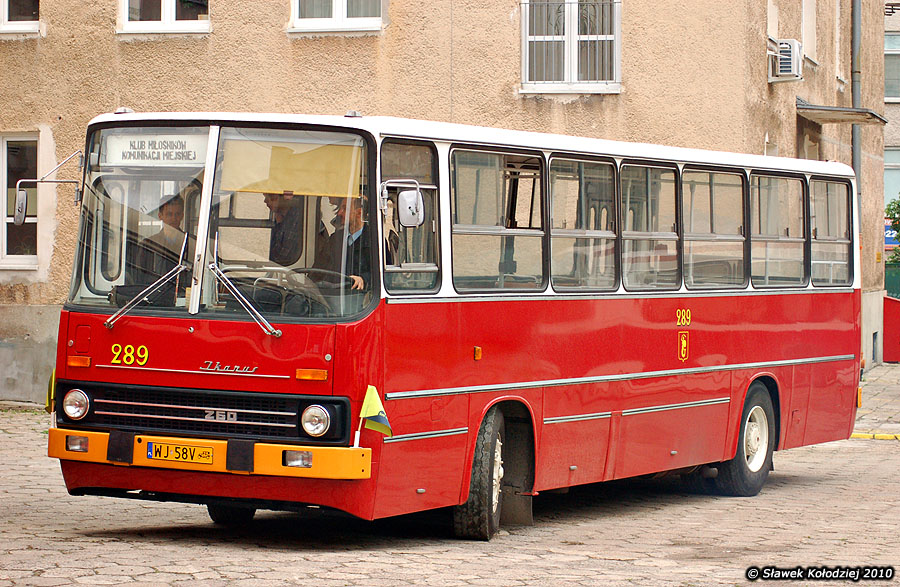 Ikarus 260.04 bus (#289) in Warsaw, Poland. Built 1982, belongs to KMKM Warszawa.